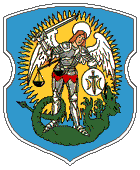 Coat of Arms of Michałowo, old Беларуская (тарашкевіца): Герб места Міхалова, стары